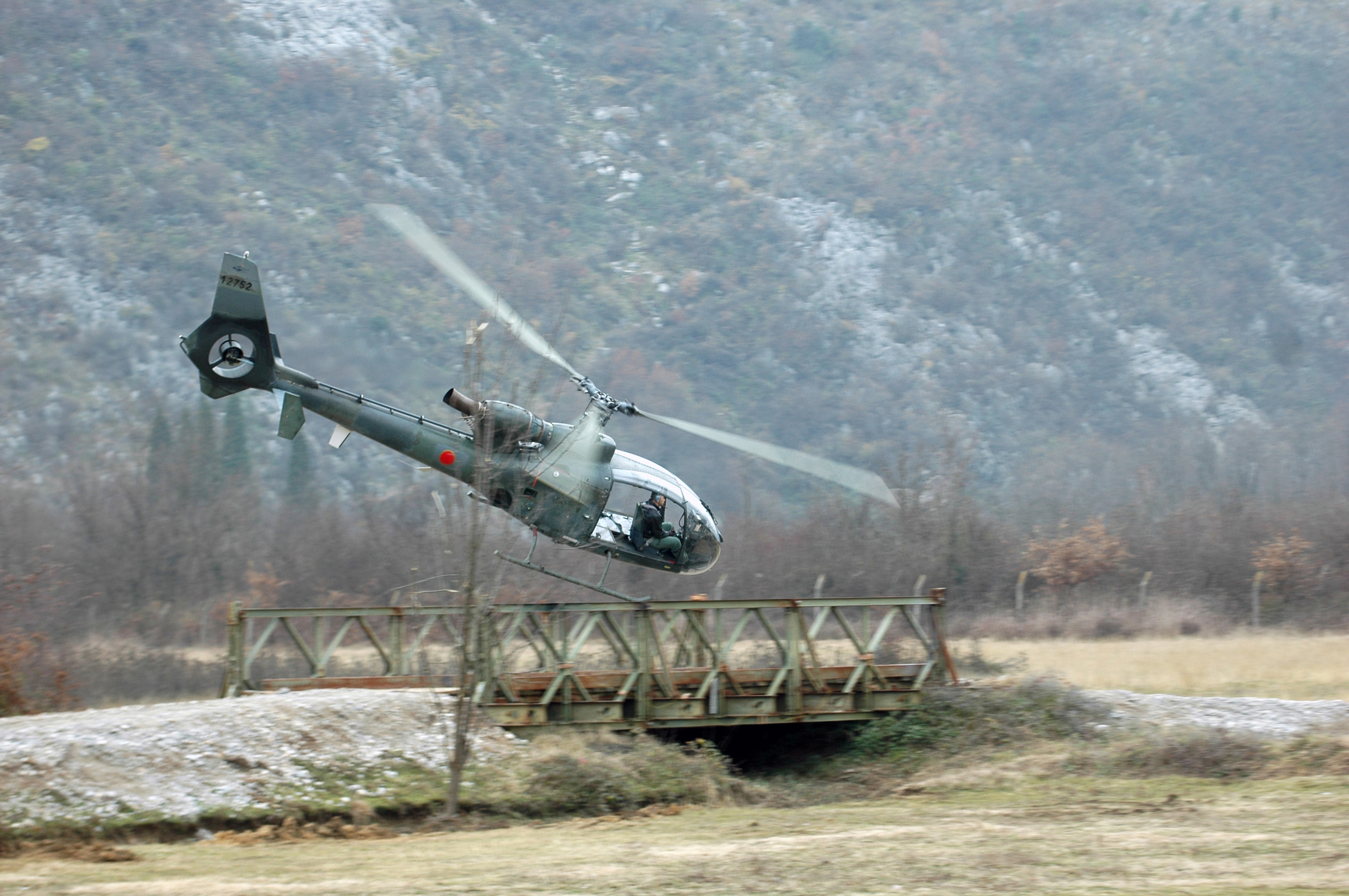 Members of the Montenegrin Special Forces helicopter flies low during a tactical capabilities demonstration at the Danilovgrad Training Center in Montenegro Dec. 7, 2006, for National Guard Bureau and Maine National Guard leaders. The Maine National Guard and Montenegro announced their pairing in the National Guardﾒs State Partnership Program.